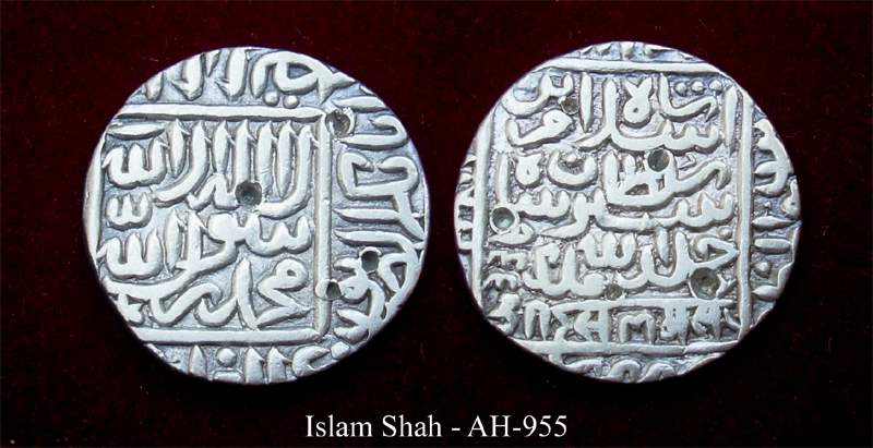 A silver rupee from my cabinet